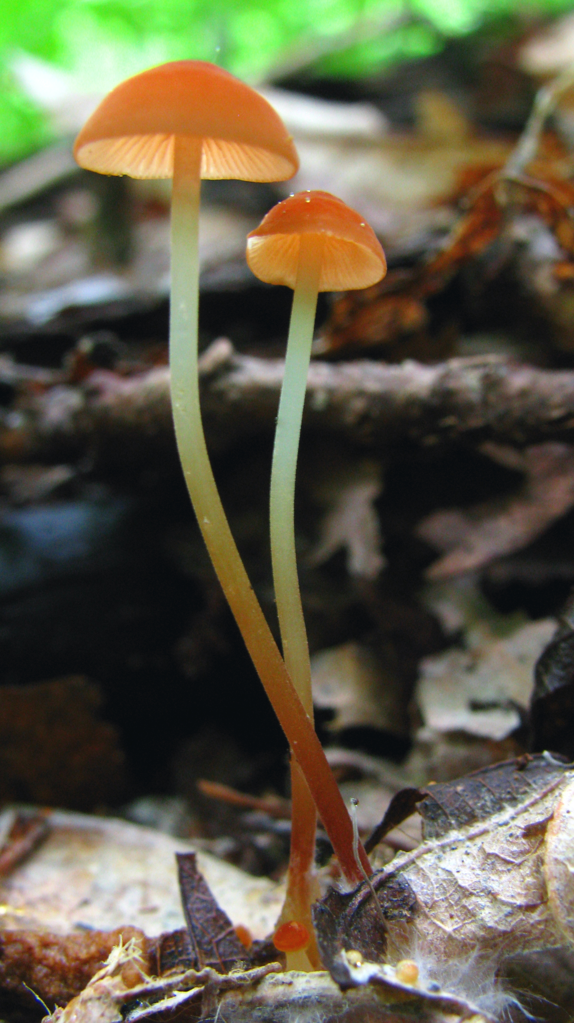 Fruit bodies of the fungus Rhizomarasmius pyrrocephalus (Berk.) R.H. Petersen. Photographed in Strouds Run State Park, Athens, Ohio, USA.